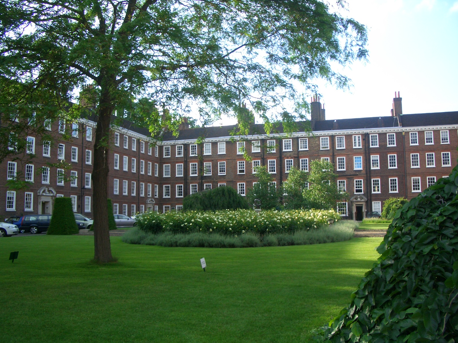 Gray's Inn